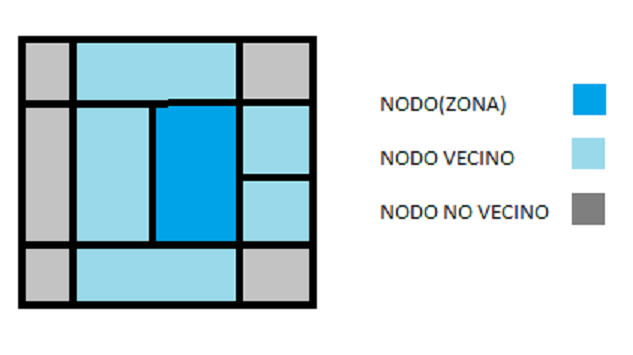 CAN´s neighbords